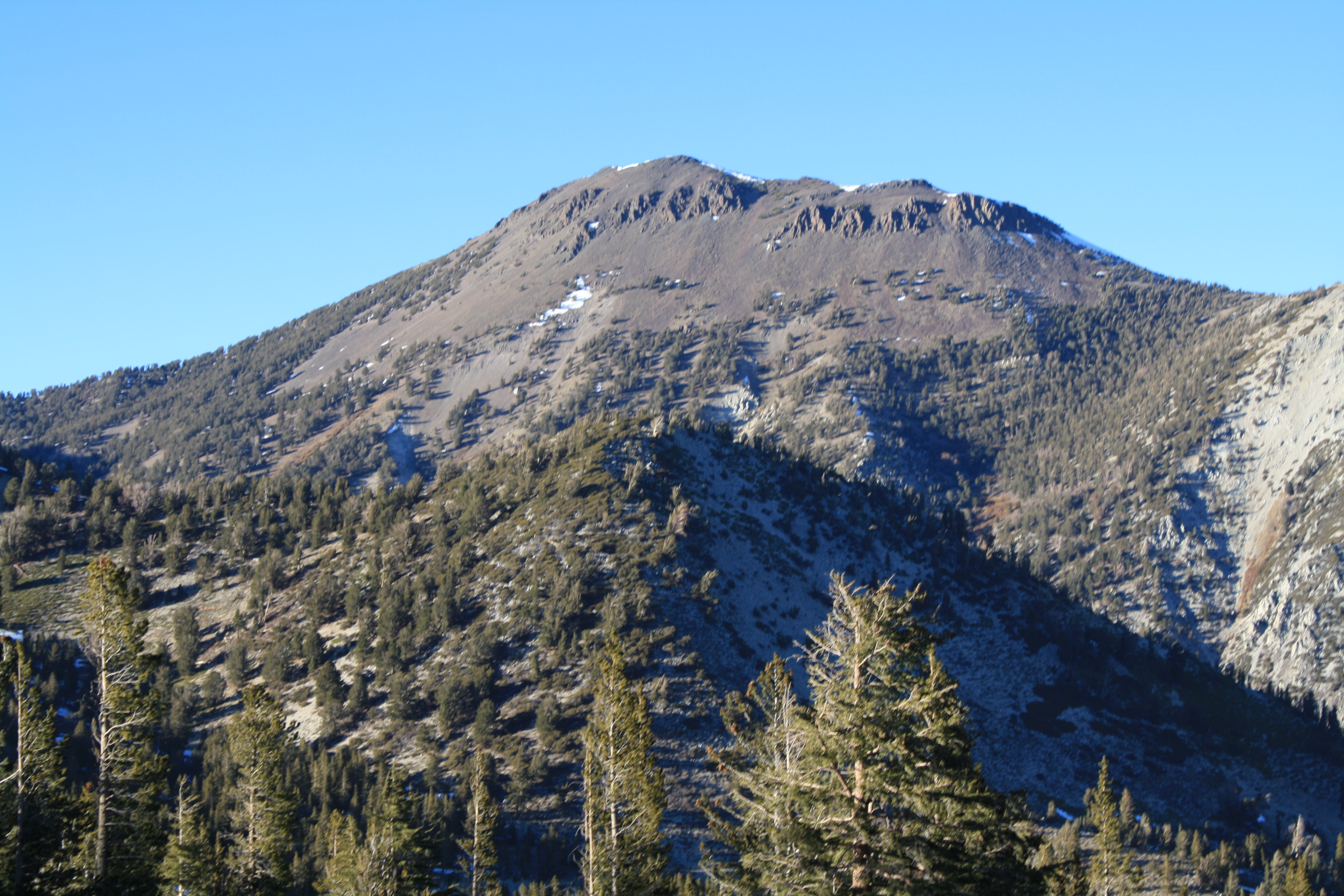 The face of Mount Rose looking North from SR431. Uploaded per request at Wikipedia:Images for upload.